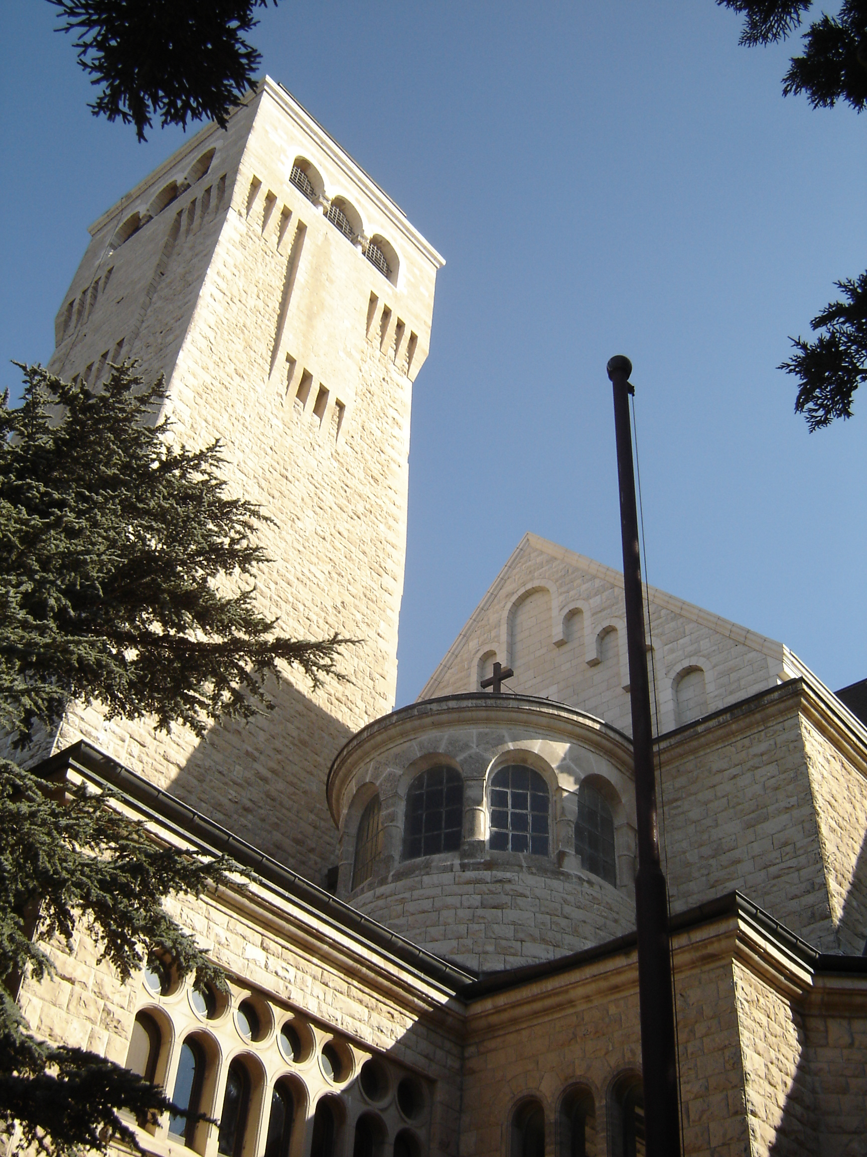 The Church in Augusta Victoria Hospital On the mountain of Olive, Jerusalem